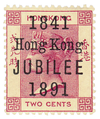 Postage stamp, Hong Kong (UK colony), 1891: Commemorative overprint for 50th anniversary of British colonial administration.